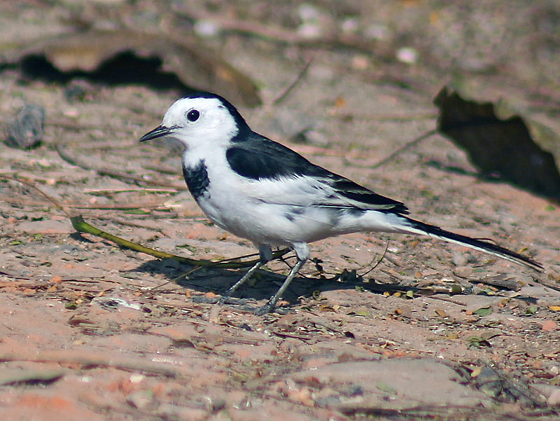 White Wagtail Motacilla alba in Kolkata, West Bengal, India.